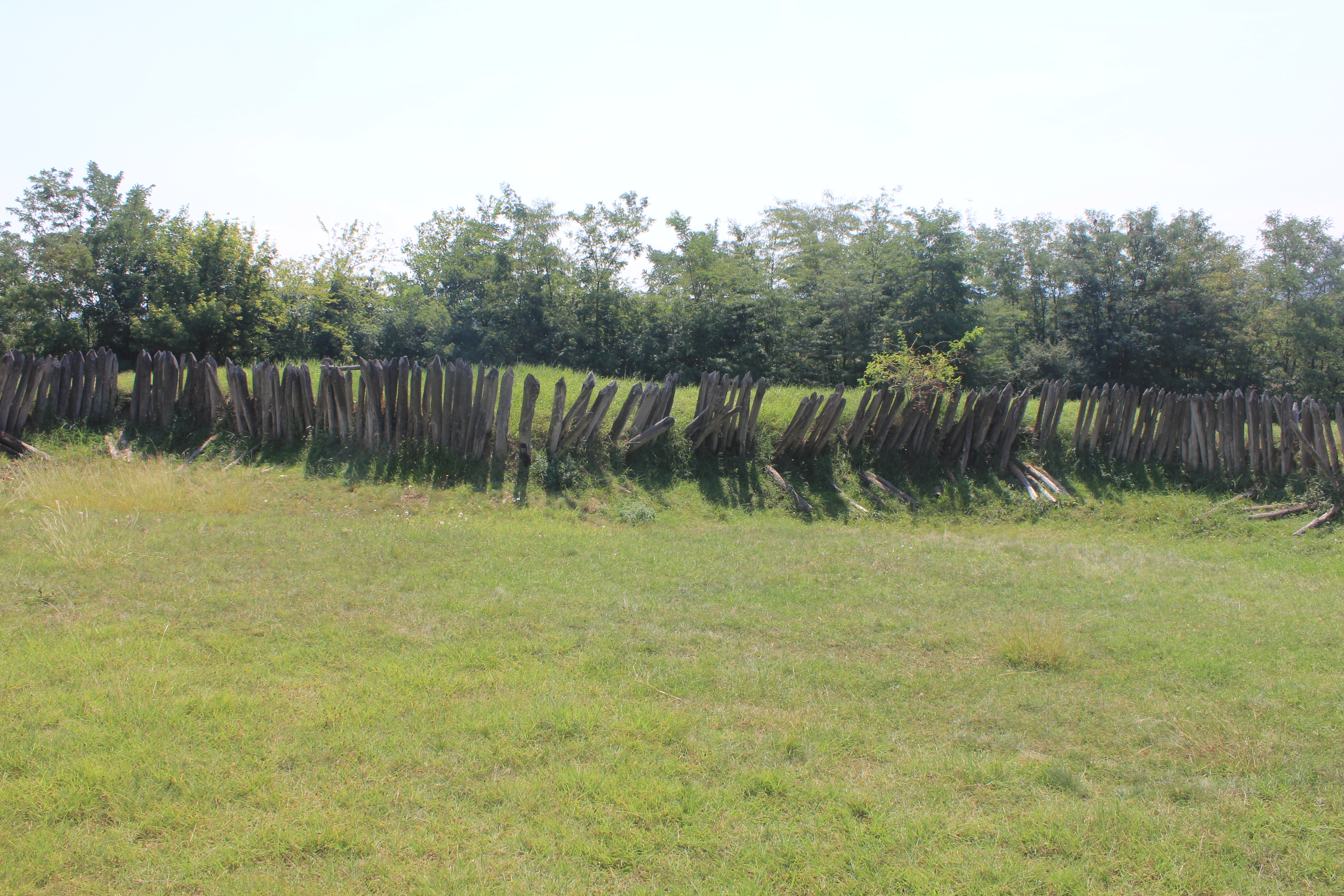 Inside view of remains of Deligrad fortress